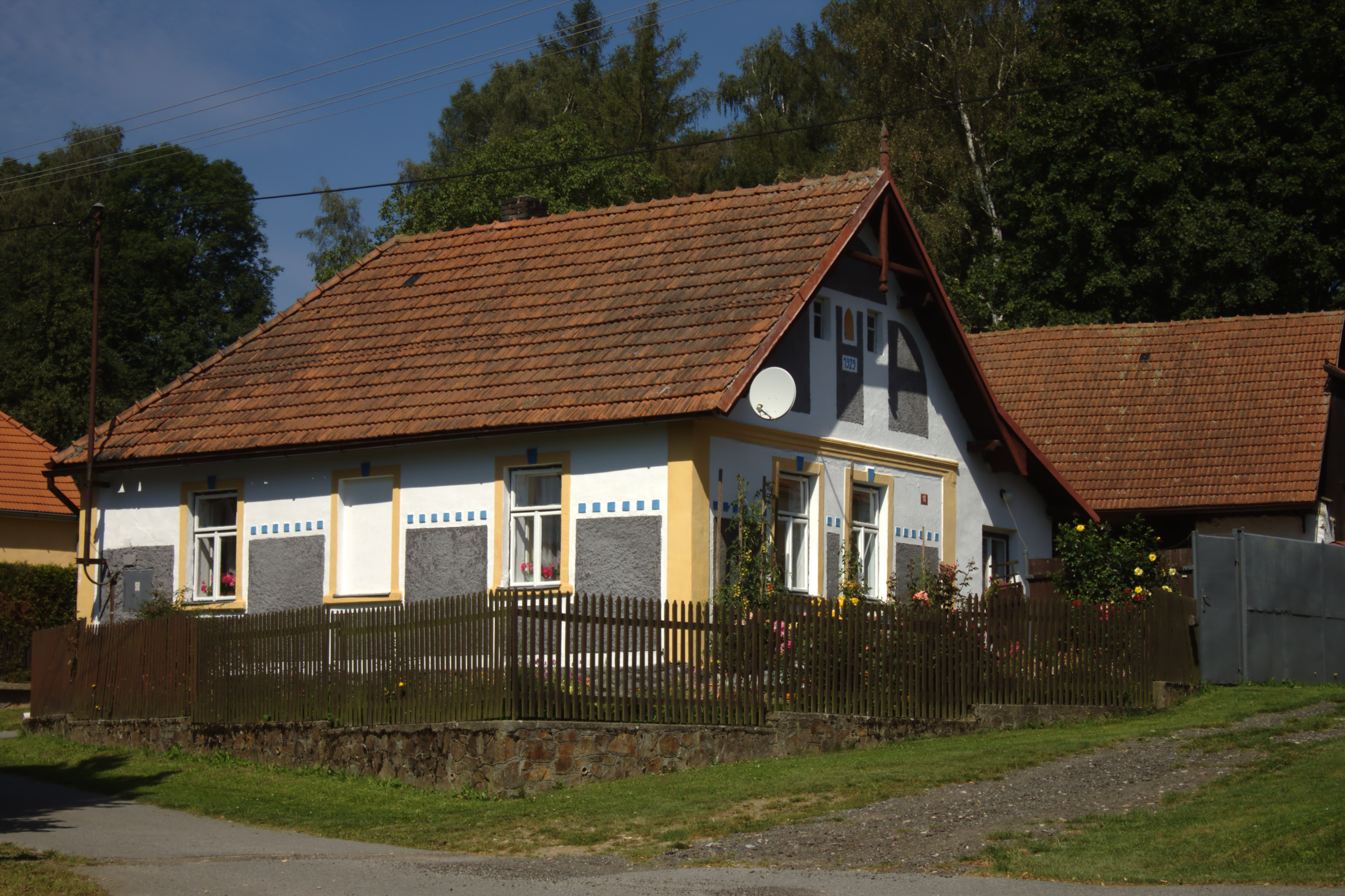 A building in the village of Zhořec, Vysočina Region, CZ